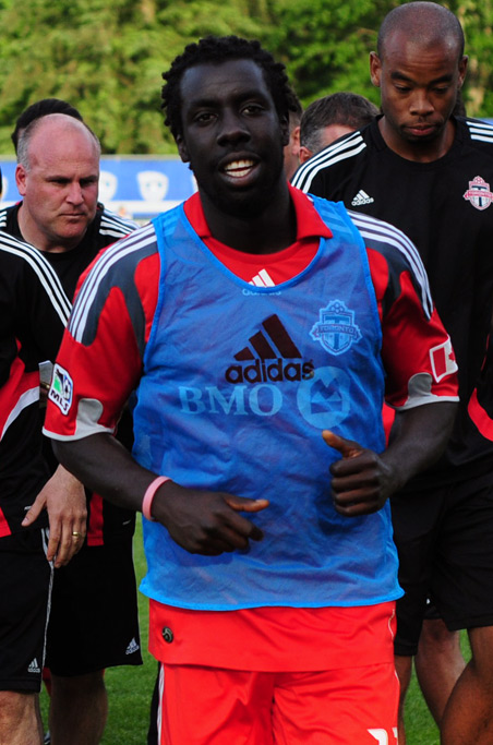 Photo of soccer player Johann Smith.